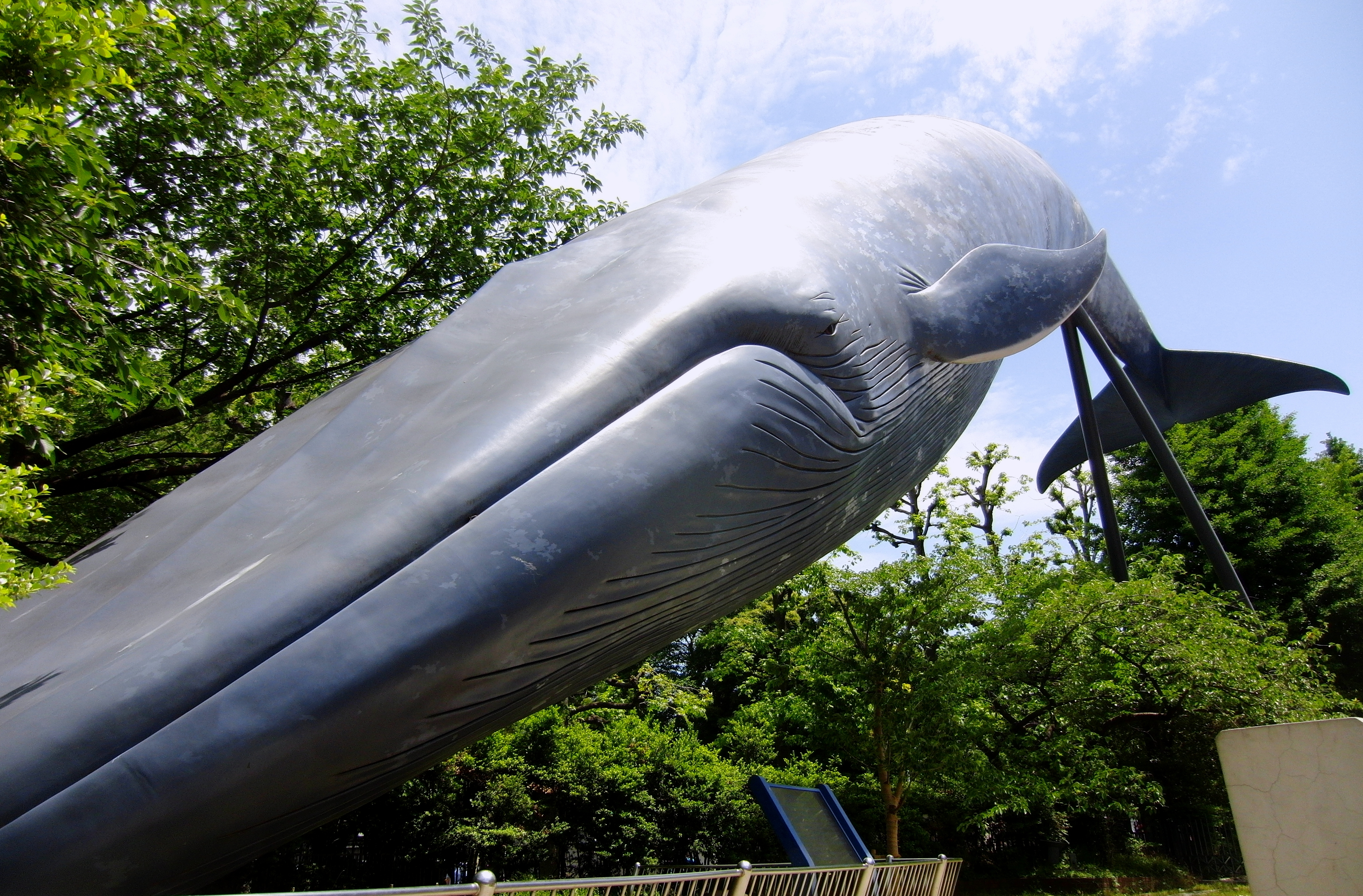 Life-size model of blue whale (Balaenoptera musculus). Exhibit in the National Museum of Nature and Science, Tokyo, Japan.